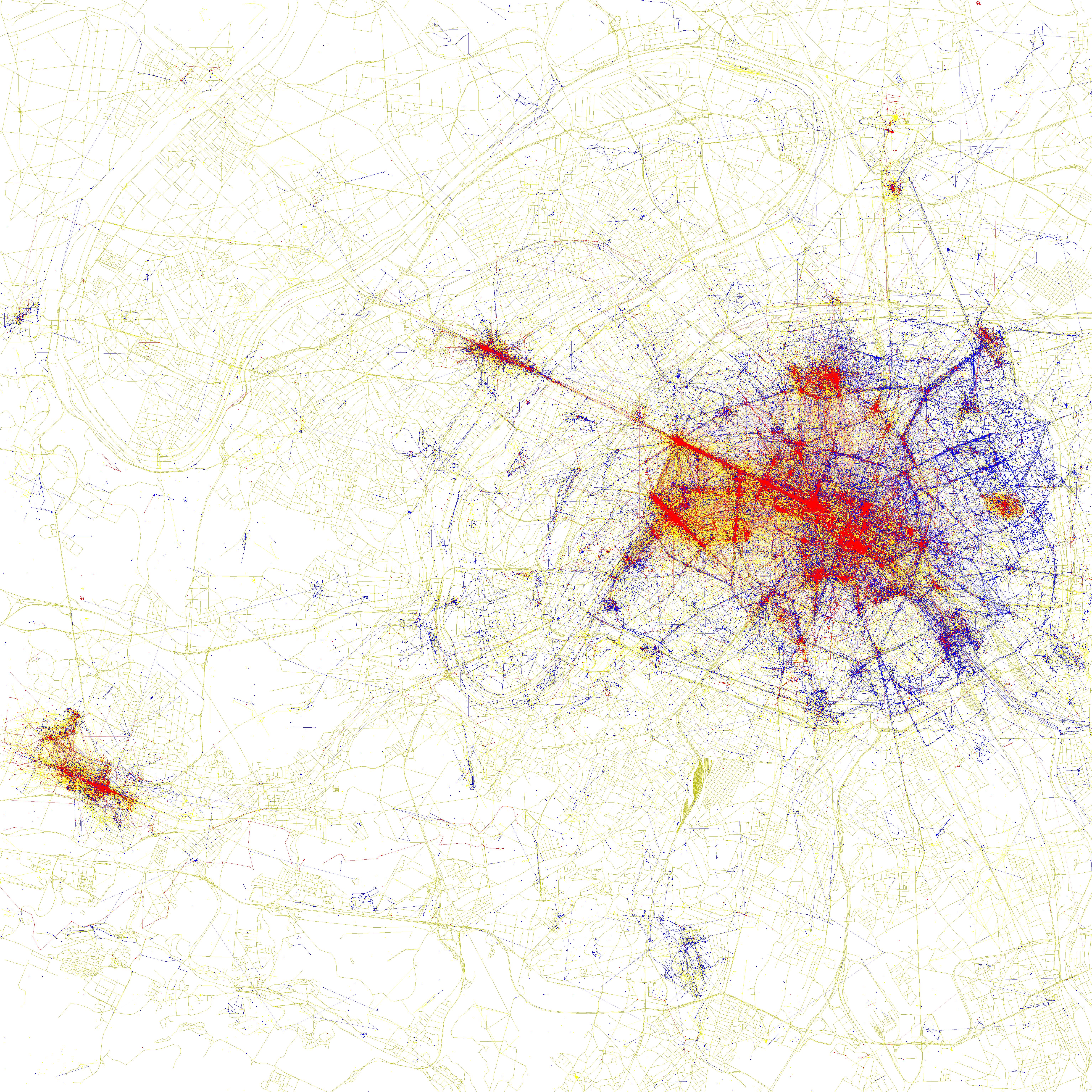 Blue pictures are by locals. Red pictures are by tourists. Yellow pictures might be by either. Base map © OpenStreetMap, CC-BY-SA